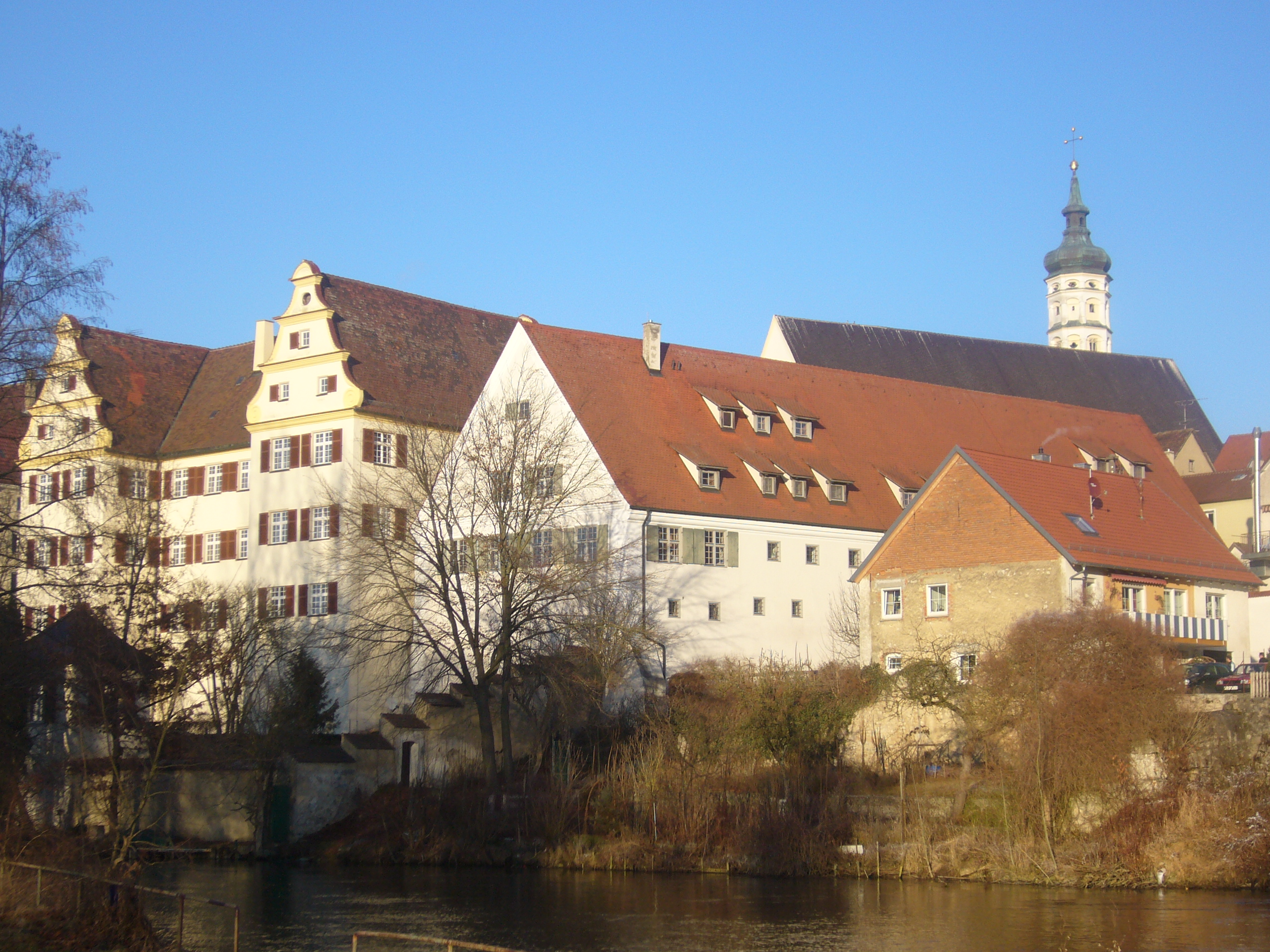 Munderkingen, Germany. Danube River in the front, 19th century bourgois houses on the left, catholic church (spire) in the background